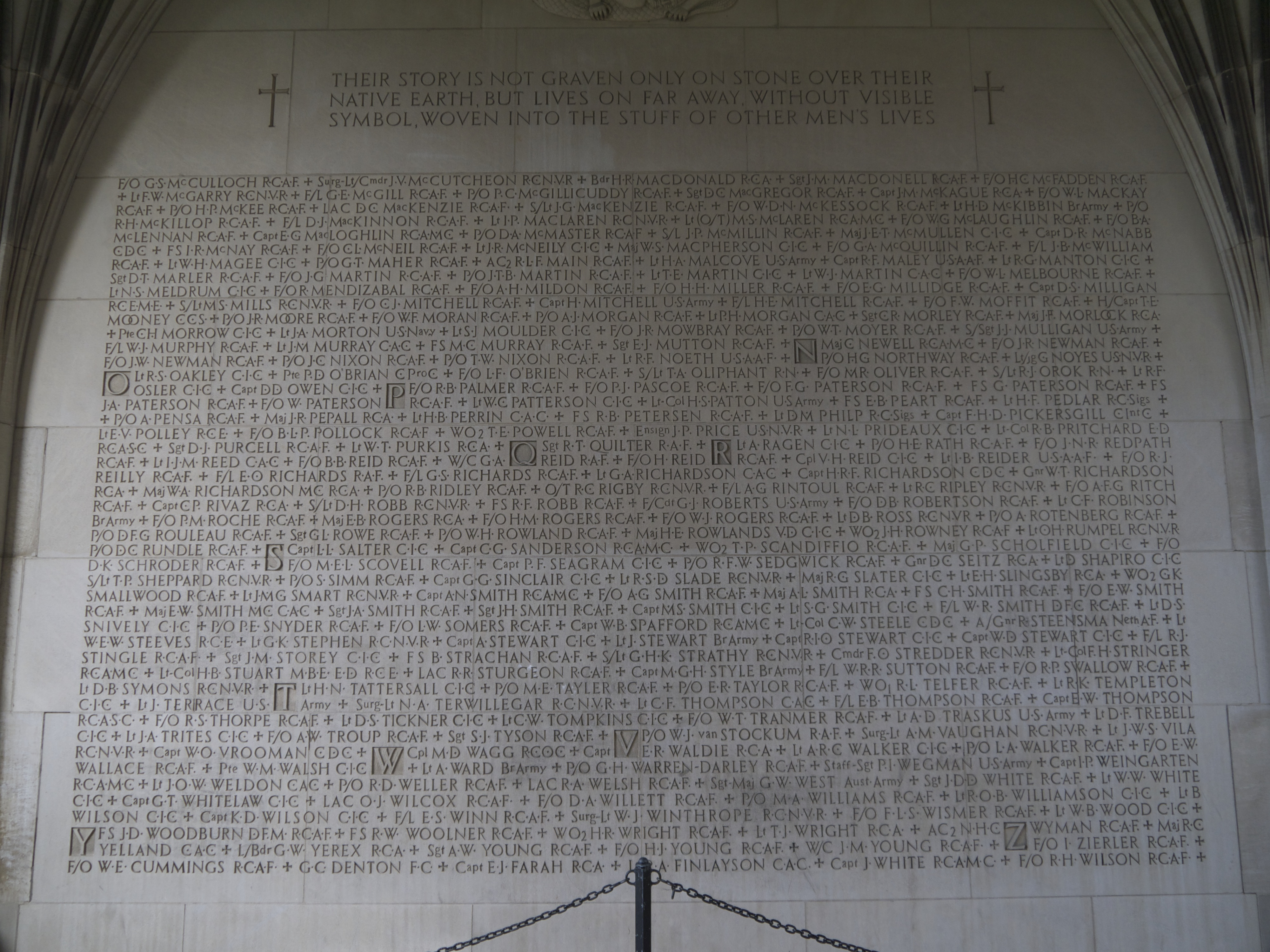 Inscription and name panel for the Soldier's Tower at the University of Toronto. This is panel 2 of the 1939-1945 list. Inscription: Their story is not graven only in stone over their native earth, but lives on far away, without visible symbol, woven into the stuff of other men's lives.